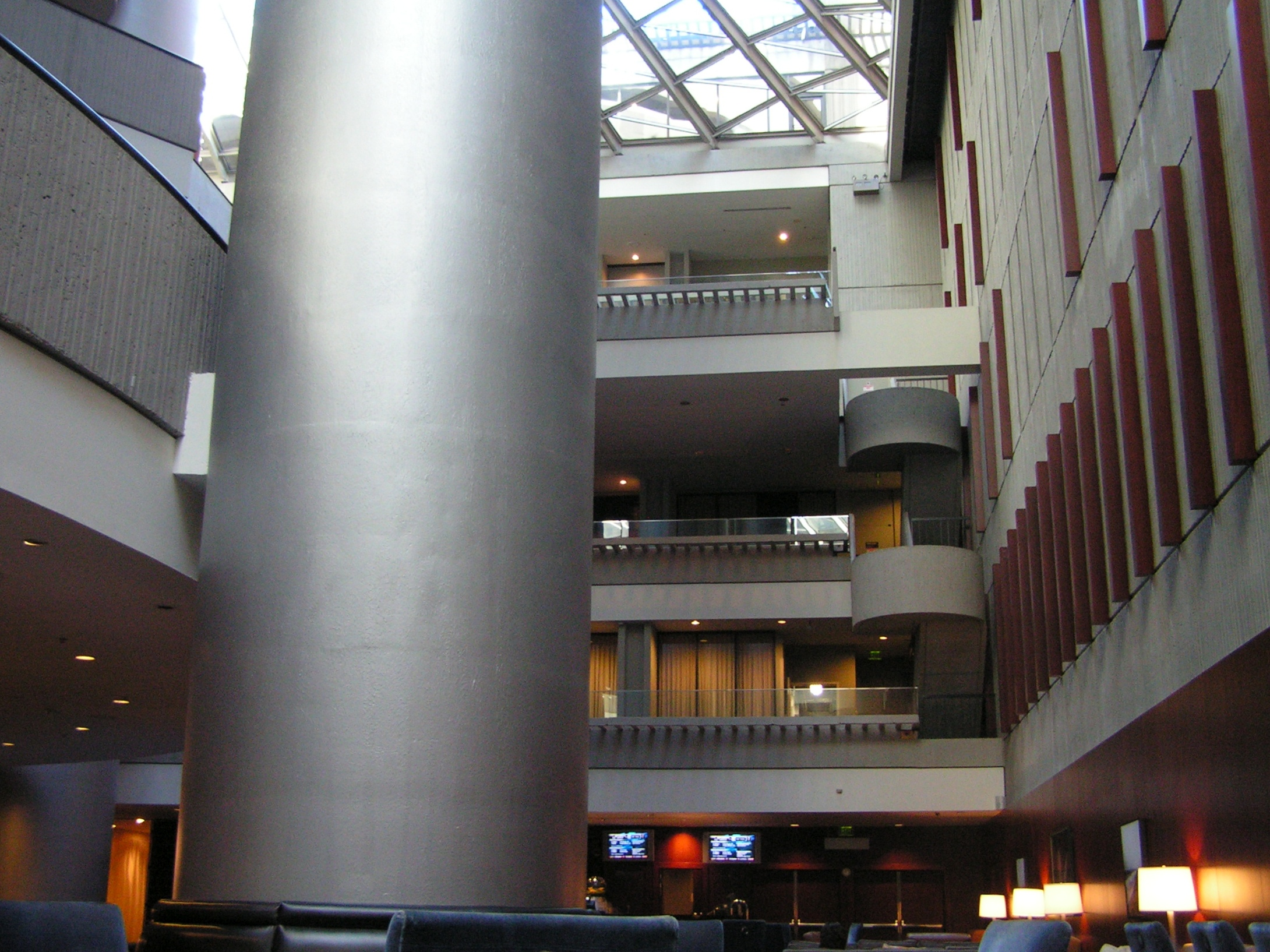 A picture of the Interior from floor 5 of the Westin Peachtree Plaza in Atlanta, Georgia.